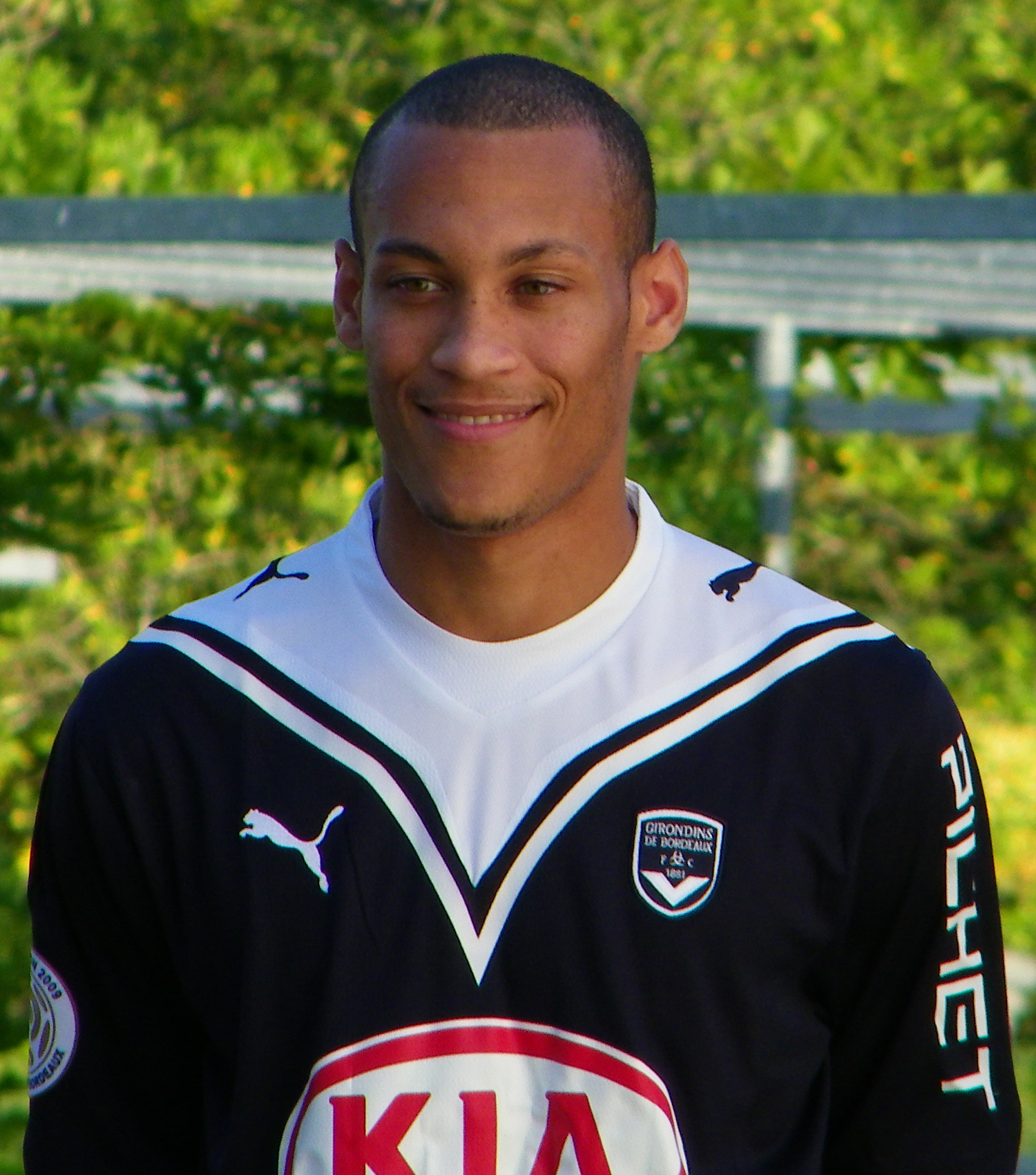 Yoan Gouffran, player at FC Girondins Bordeaux. Taken by Valentin Trijoulet. Public domain.